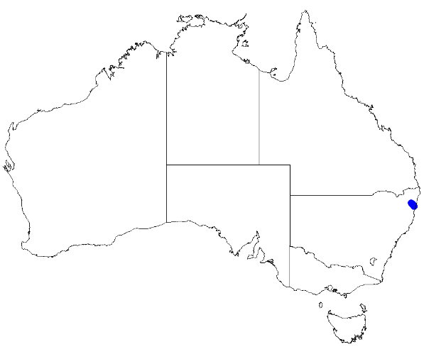 Boronia hapalophylla occurrence data downloaded from Australasian Virtual Herbarium 10 April 2019 using This download included all the environmental overlay fields and ALA's data checking fields including "cultivated / escapee", "outside expert range for species", "latitude is negated", "coordinates are transposed", "taxon misidentified", "habitat incorrect for species", and "suspected outlier" (over 730 fields). Deleting occurrences for which any of the above were true, 46 specimens with coordinates were deleted. However this did not remove all obvious spatial outliers some of which were later removed by hand..